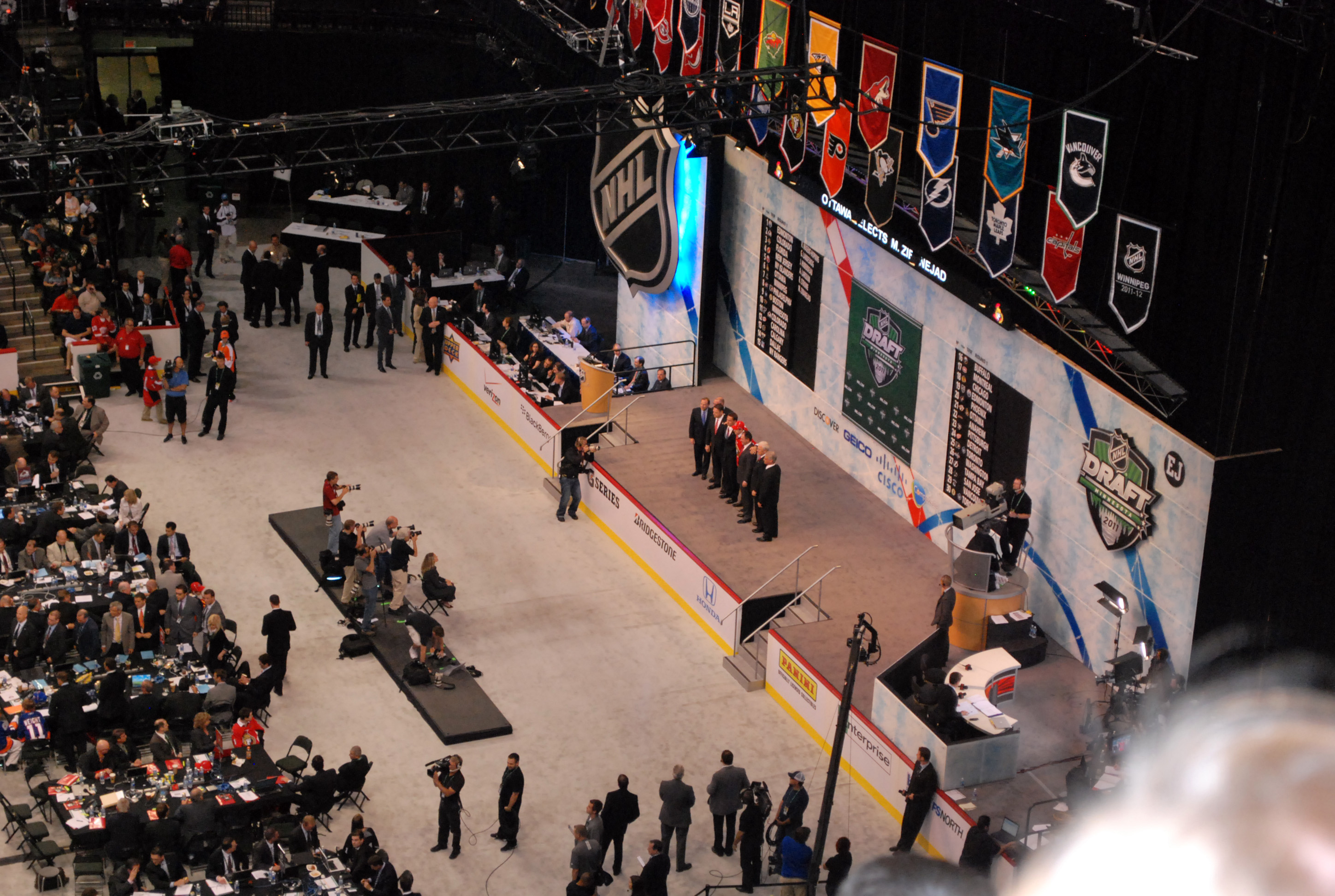 Mika Zibanedjad being selected sixth overall in the 2011 NHL Entry Draft by the Ottawa Senators.